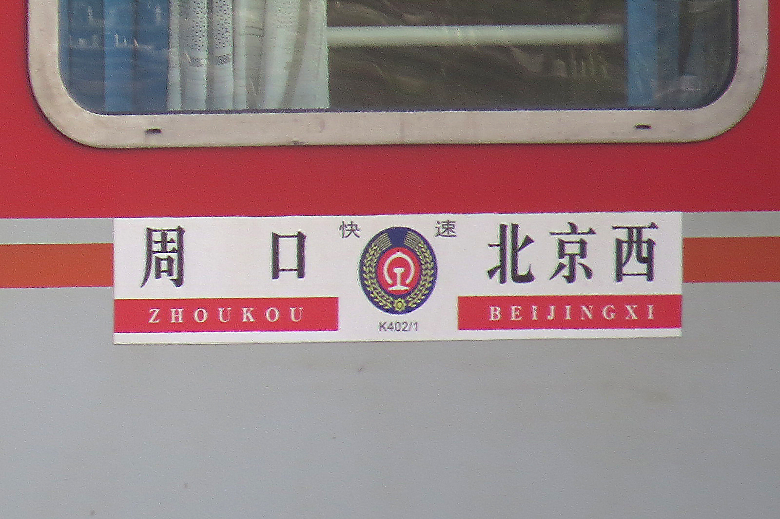 Zhoukou (without "dian") to Beijing.